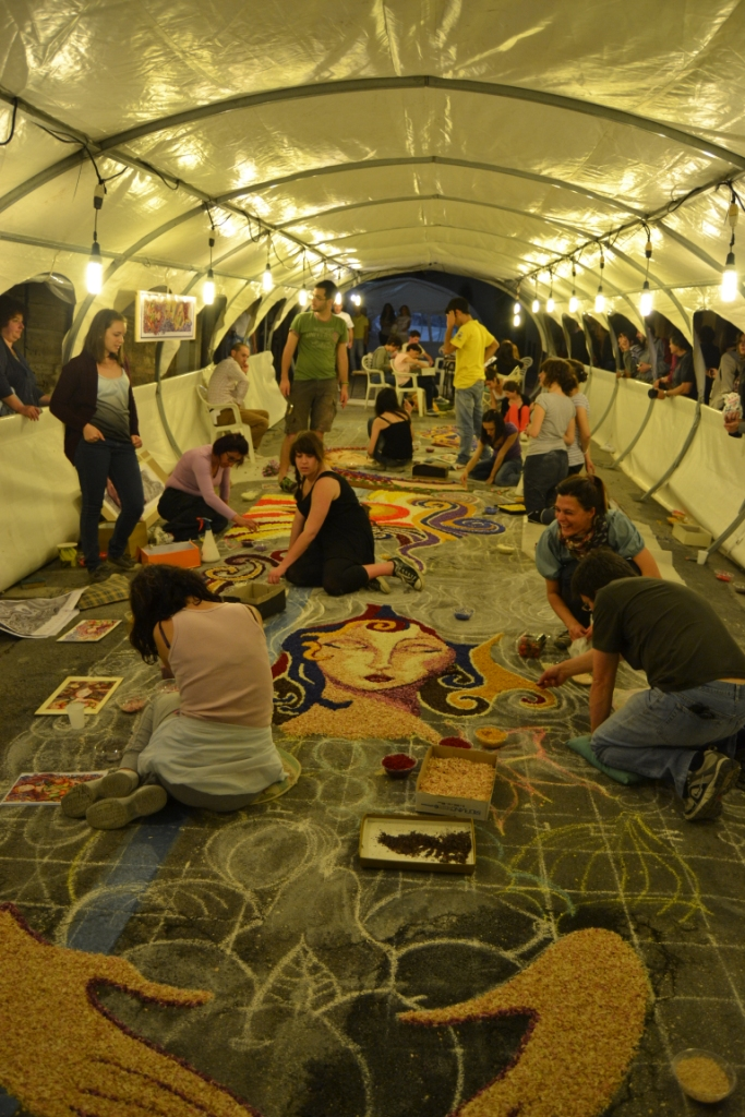 Spello's infiorate. Flower-carpet makers at work